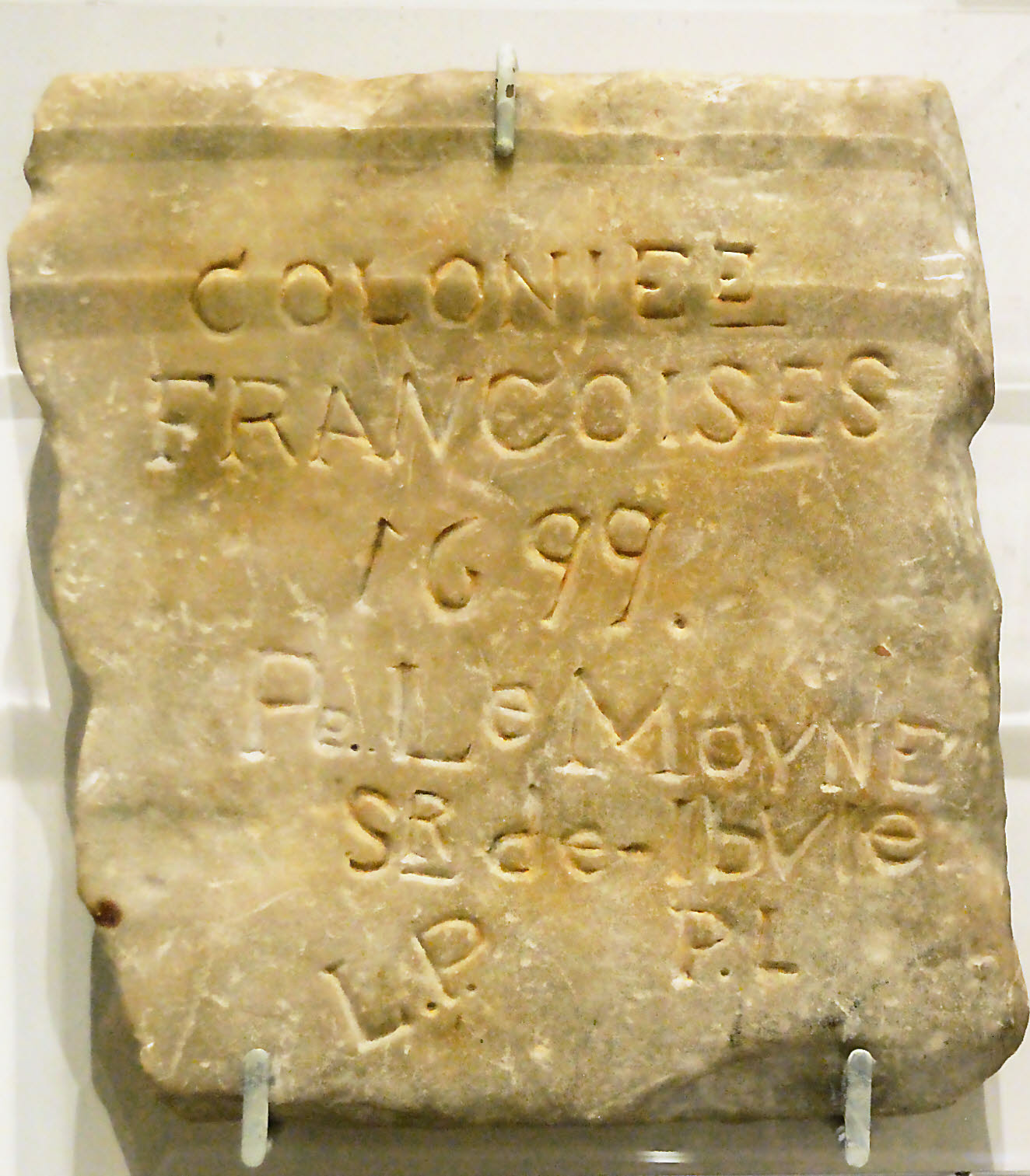 Stone purported to be the original plaque that Pierre Le Moyne, sieur d'Iberbille, used to mark the Louisiana colony's first permanent French settlement in 1699. (New Orleans Museum)